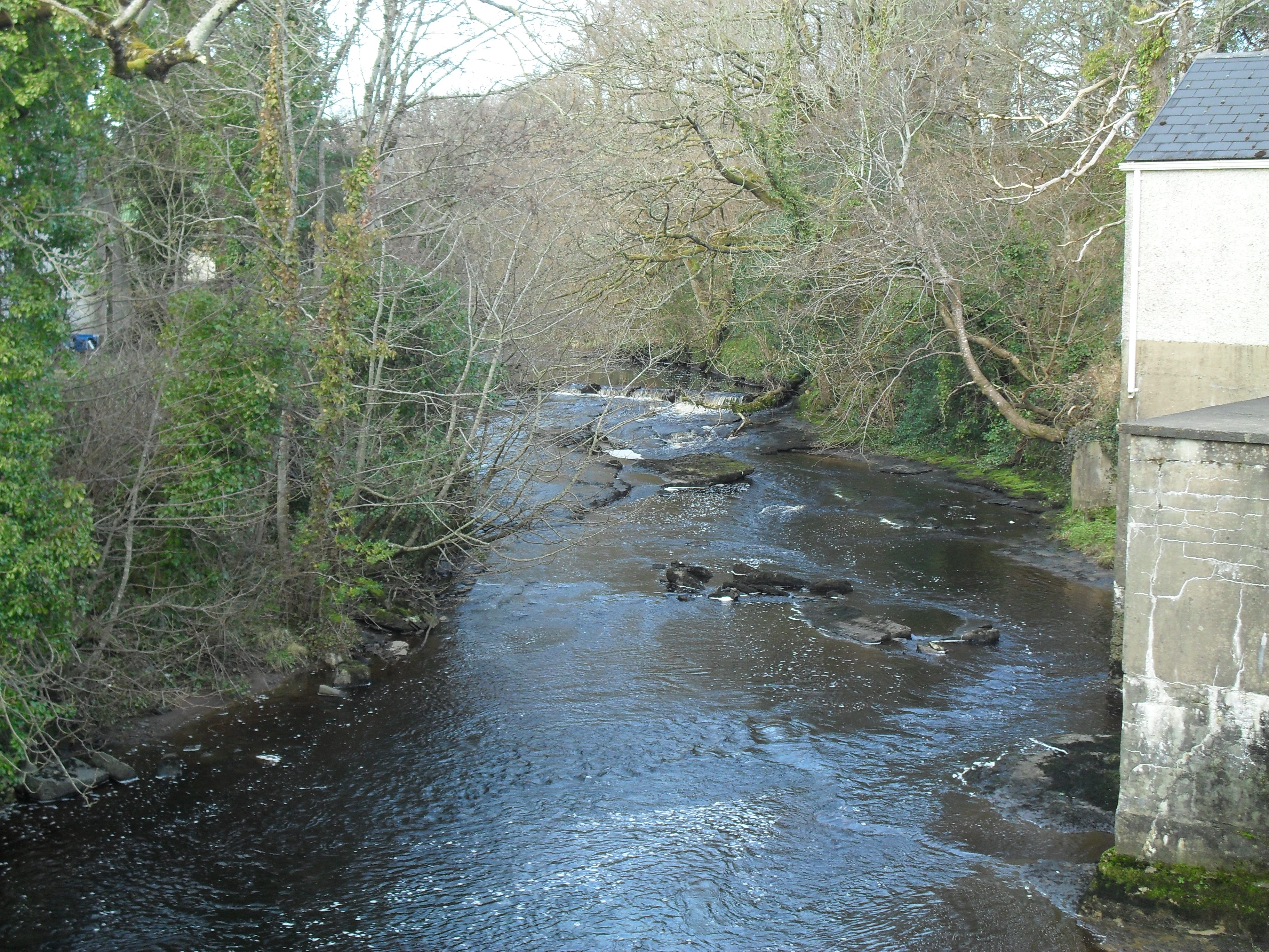 Roogagh River, Garrison Flowing down into Lough Melvin.